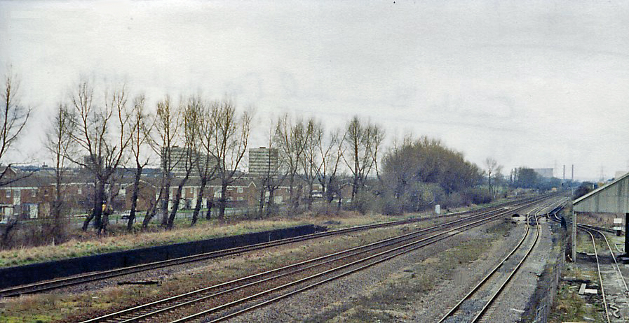 Remains of Castle Bromwich station on Birmingham - Derby trunk line, 1984. View NE, towards Water Orton, Leicester, Burton-on-Trent, Derby etc.: ex-Midland Derby - Birmingham main line, an immensely busy line but no train is evident at this moment. The M6 motorway is just to the north here, but not visible.